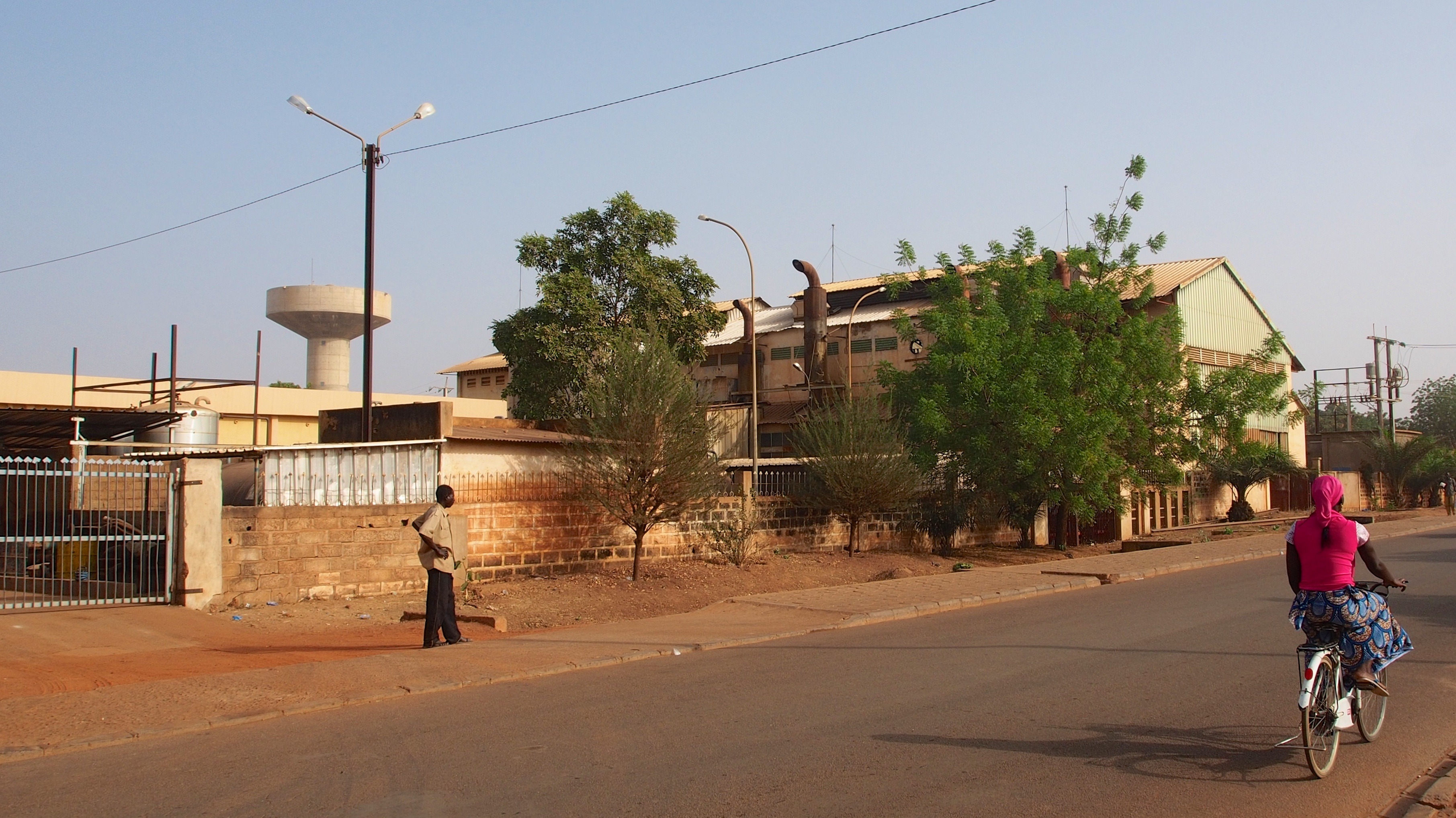 The fuel powered power plant Ouaga I, operated by SONABEL at Paspanga, Ouagadougou